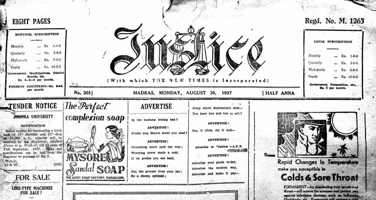 Masthead of English newspaper Justice dated August 30, 1937. It was the official newspaper of the Justice Party in Madras Presidency